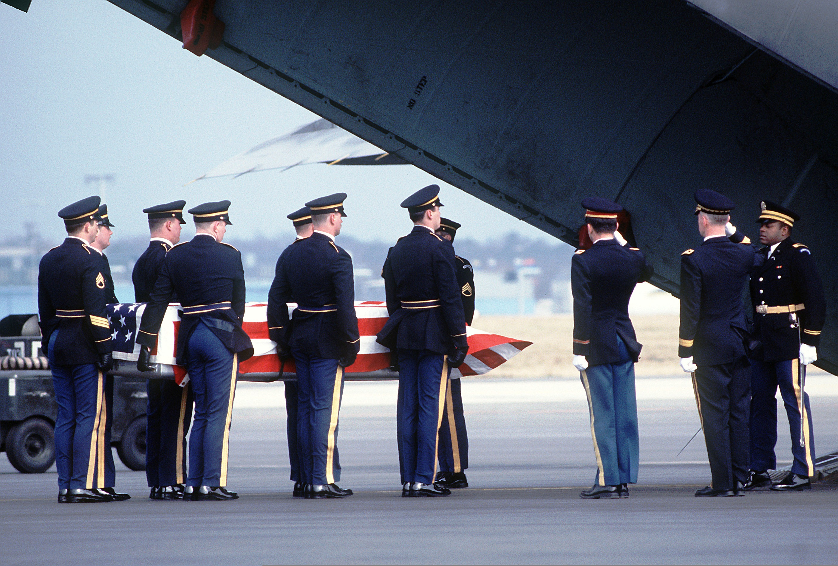 U.S. Army pallbearers prepare to carry the transfer case of Maj. Arthur D. Nicholson Jr. into an aircraft during a departure ceremony on the flight line. Nicholson was shot while on duty in East Berlin in 1985.